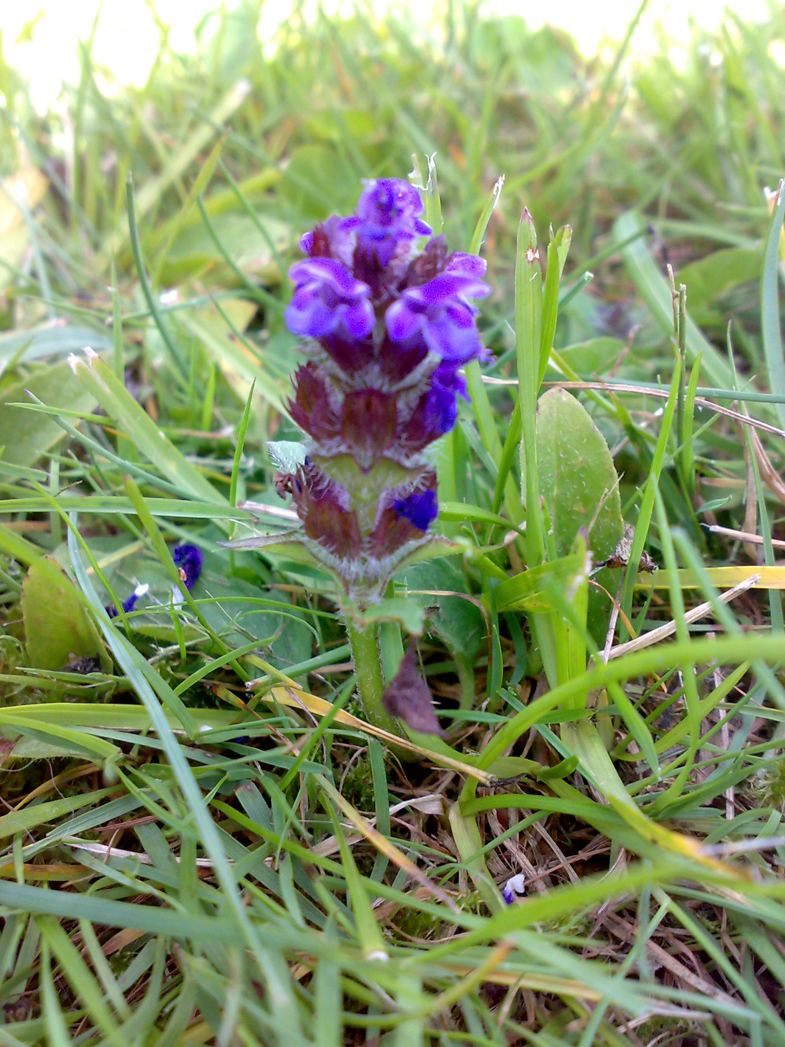 Prunella vulgaris closeup